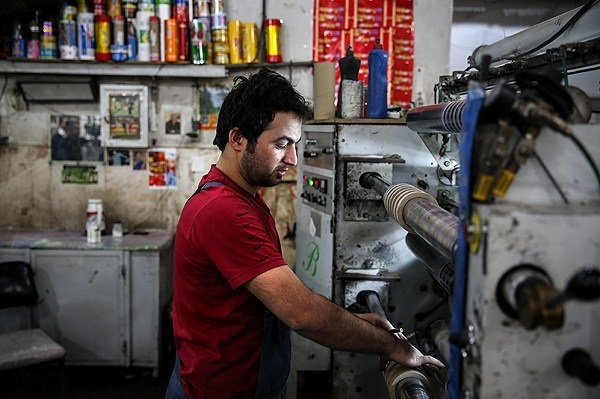 A Printing house in Tehran.main album